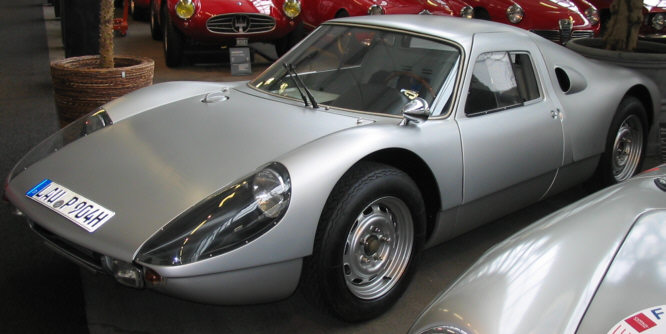 Porsche 904 in Hersbruck near Nürnberg, Germany.